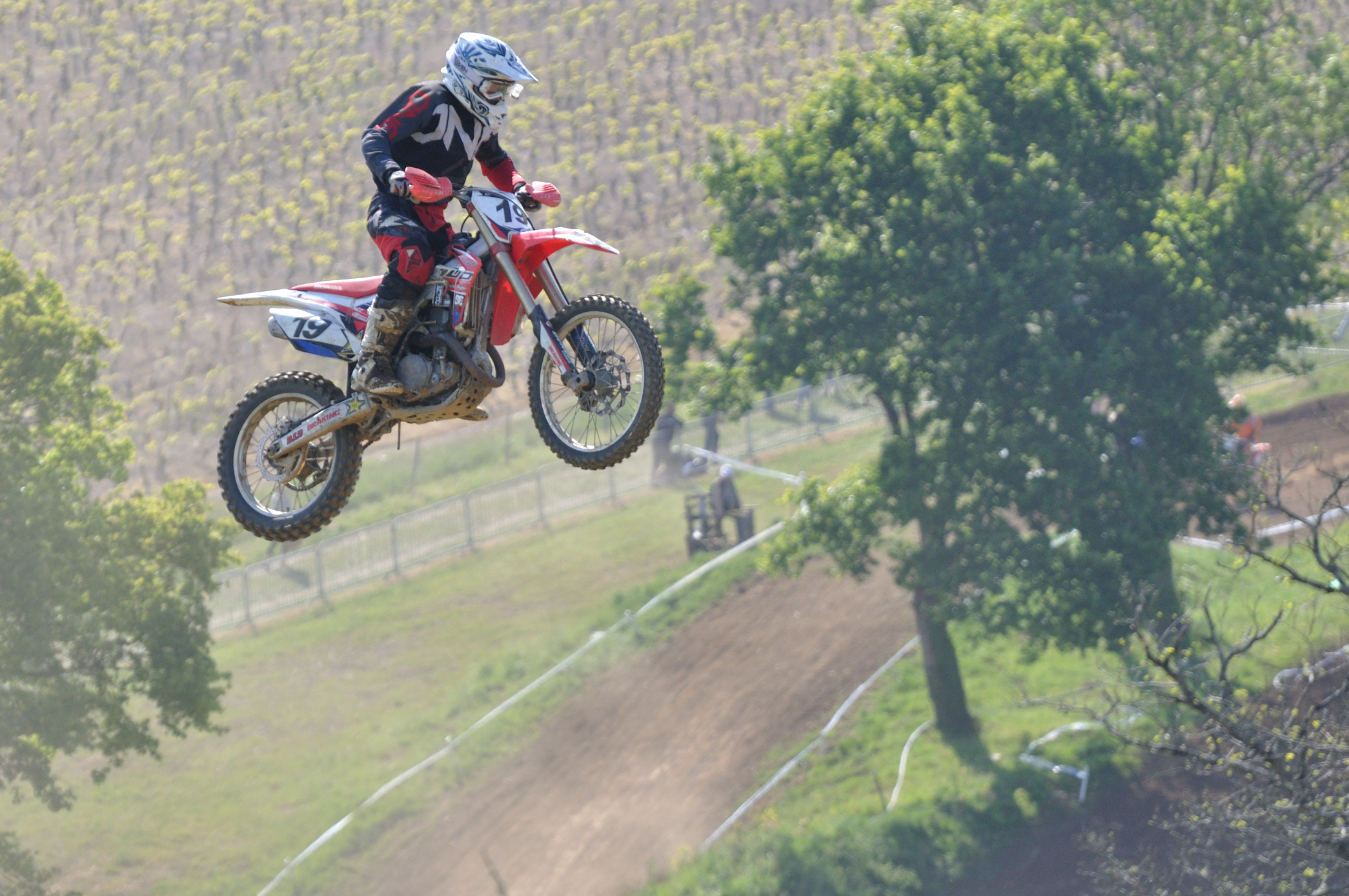 Motorcycle jump during a motocross race in Barbechat, France